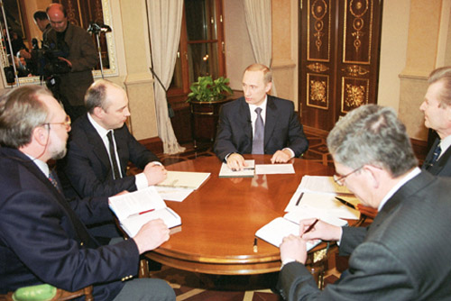 THE KREMLIN, MOSCOW. President Vladimir Putin giving an interview to the chief editors of leading Russian newspapers.